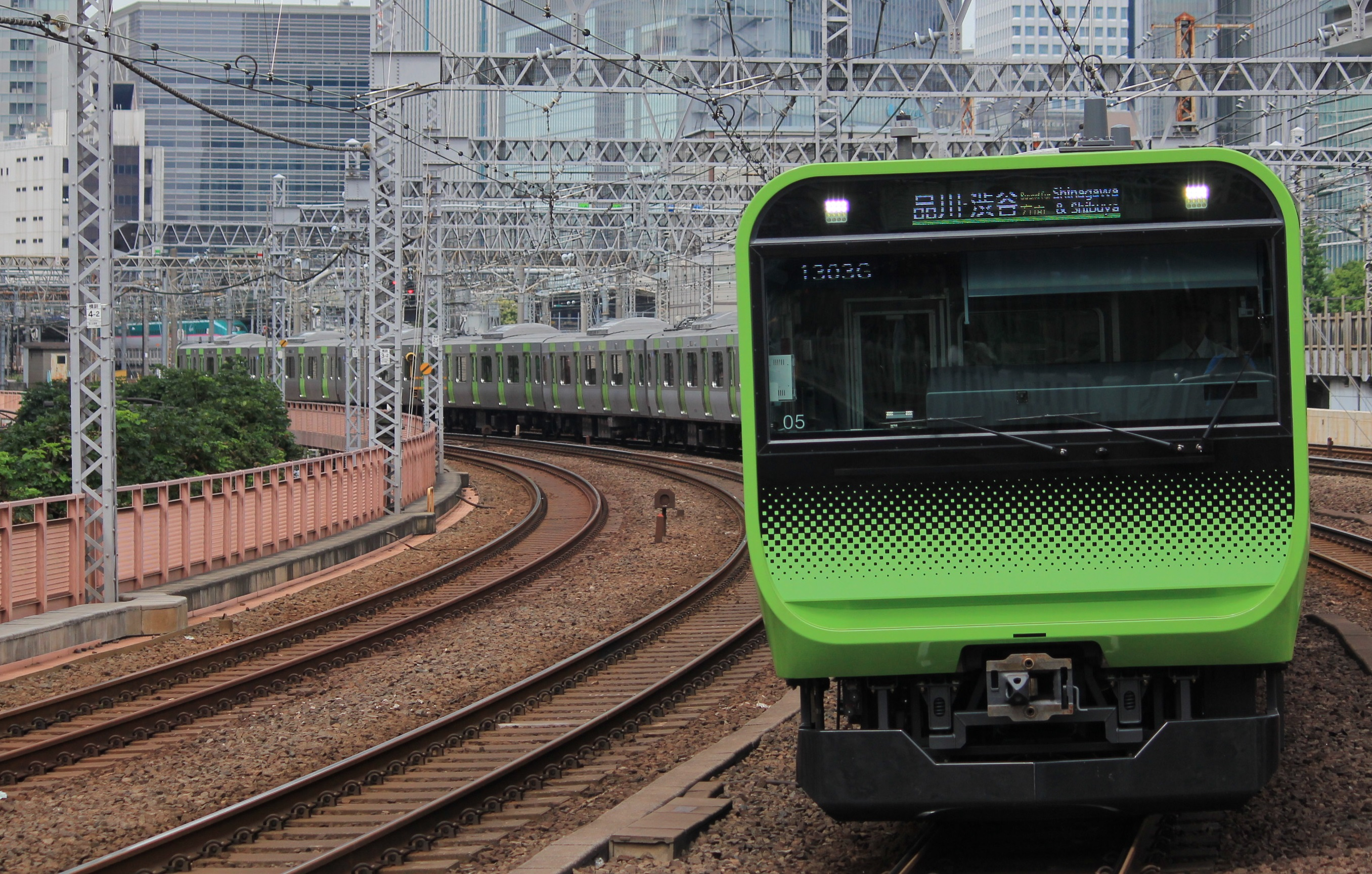 JR East E235 series EMU set 05 approaching Yurakucho Station on the Yamanote Line in Tokyo